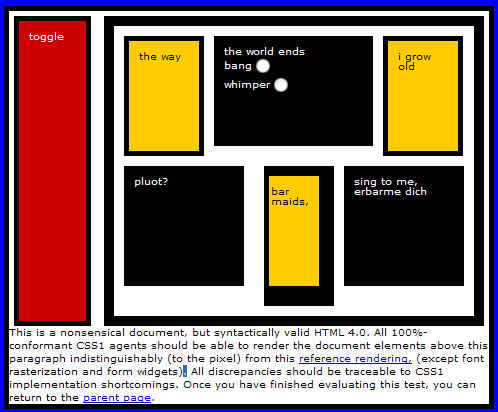 This is a screenshot of the performance of the alpha release of Opera 10 on the Acid1 test